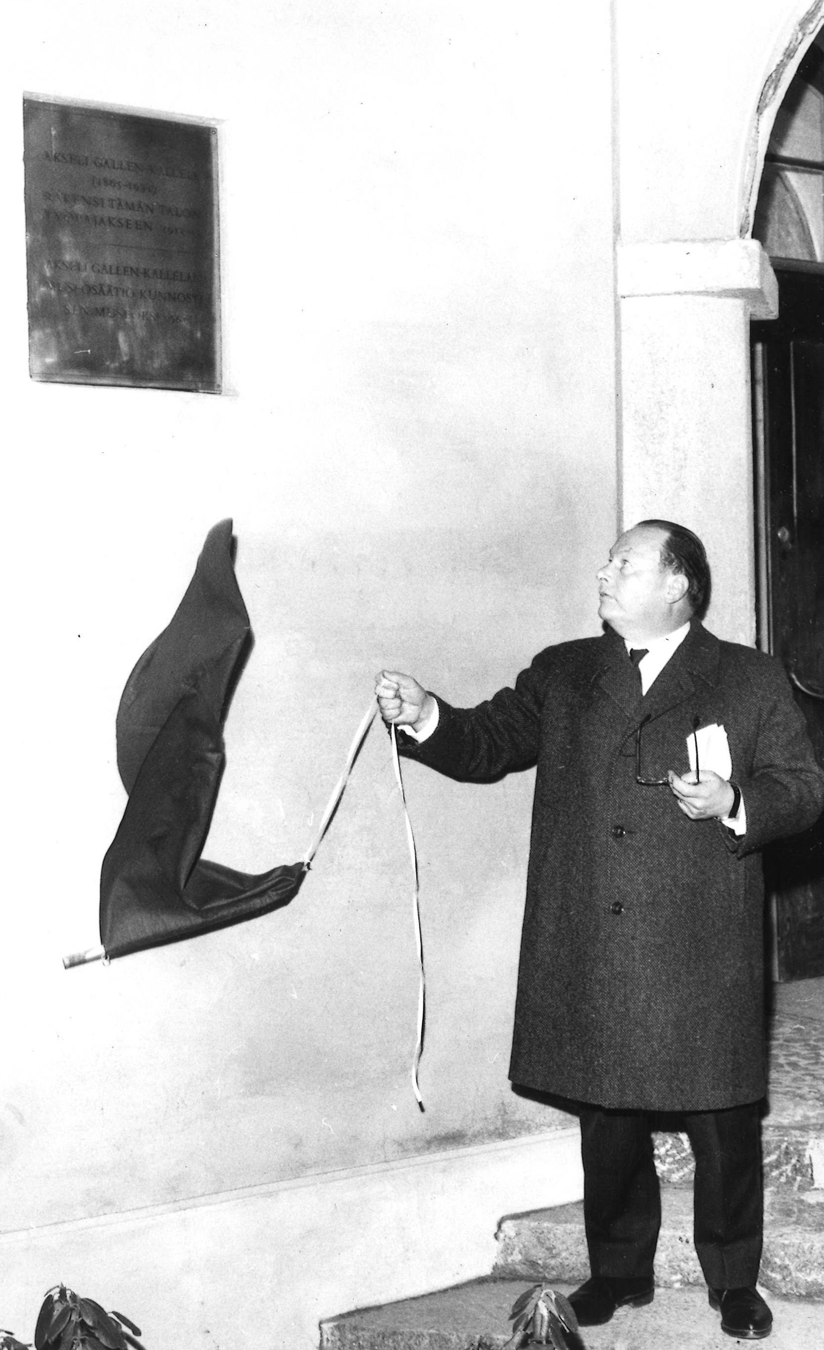 Photograph of Teuvo Aura revealing a plaque in honour of Akseli Gallen-Kallela.